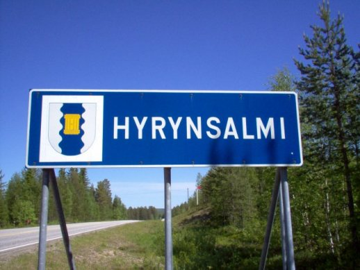 Municipal border sign of Hyrynsalmi, Finland